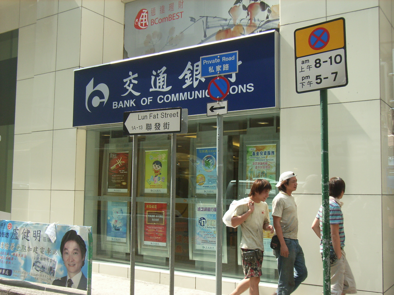 灣仔舊區街道 Wanchai old streets, Hong Kong. (A1 Wong East).